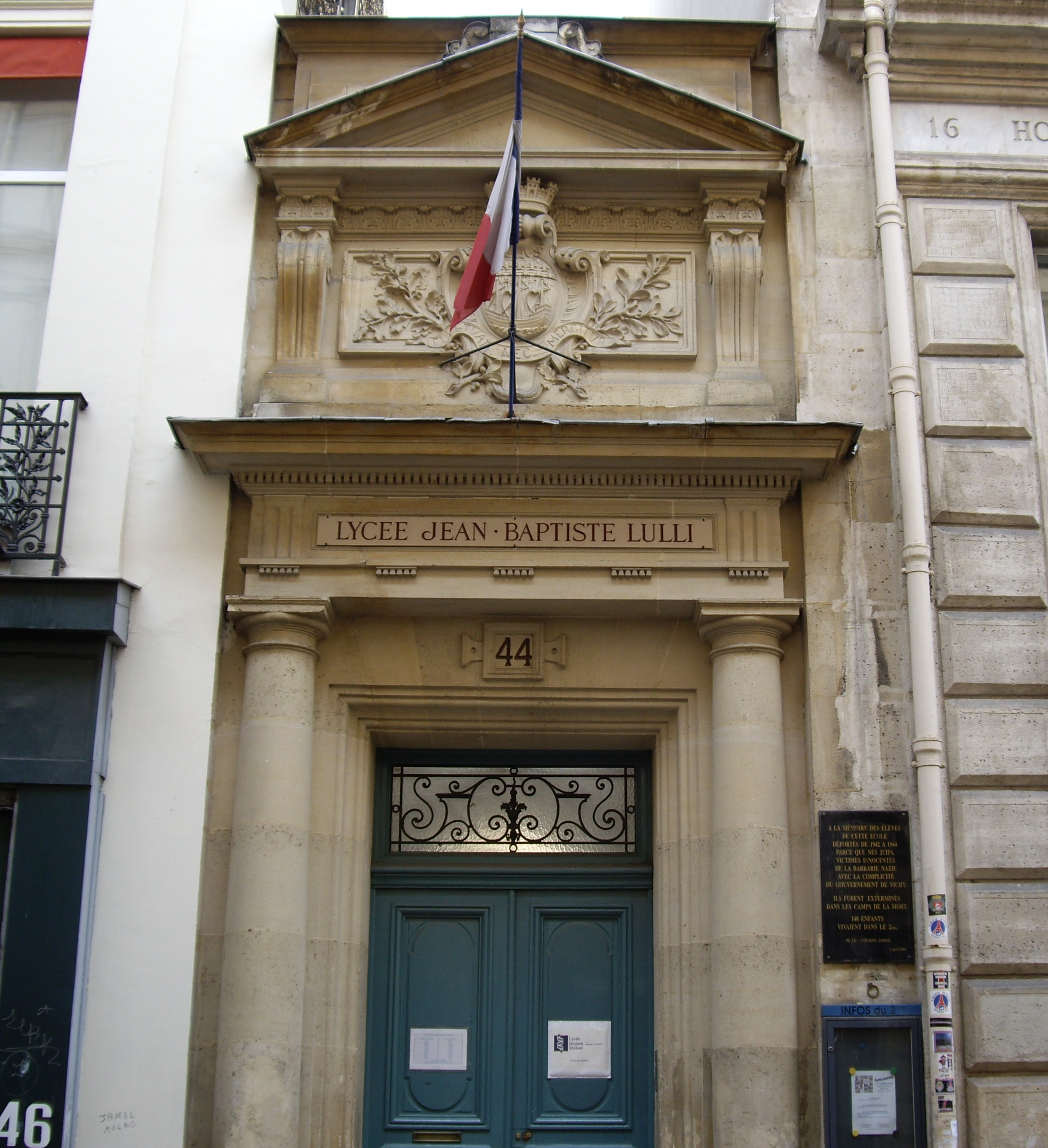 Lycée Jean-Baptiste Sully, a sixth form college, 2nd arrondissement of Paris